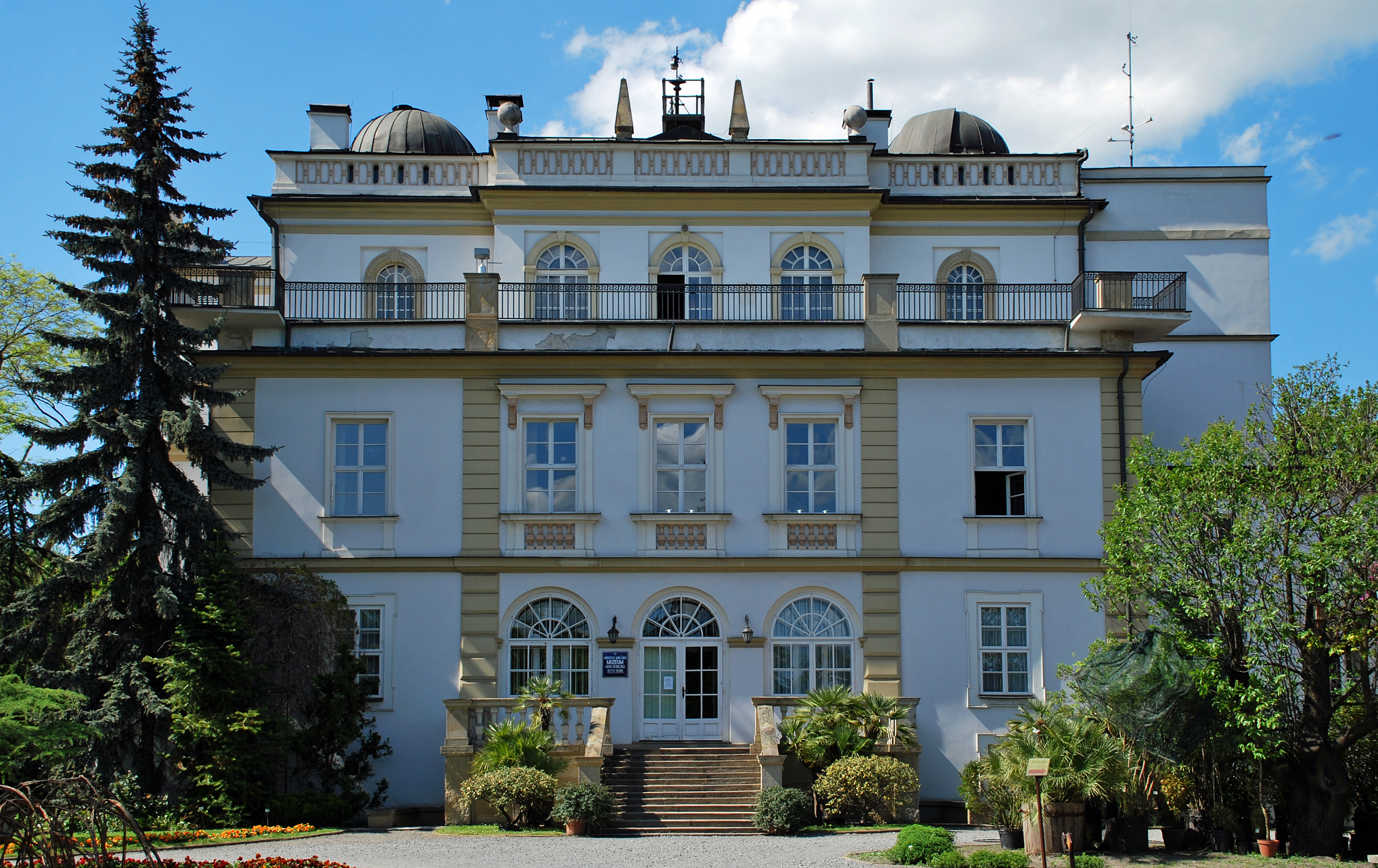 Jagiellonian University Collegium Śniadeckiego (formerly JU Astronomical Observatory), by arch. Feliks Radwański Sr 1788-1790, 27 Mikołaja Kopernika street, Krakow, Poland